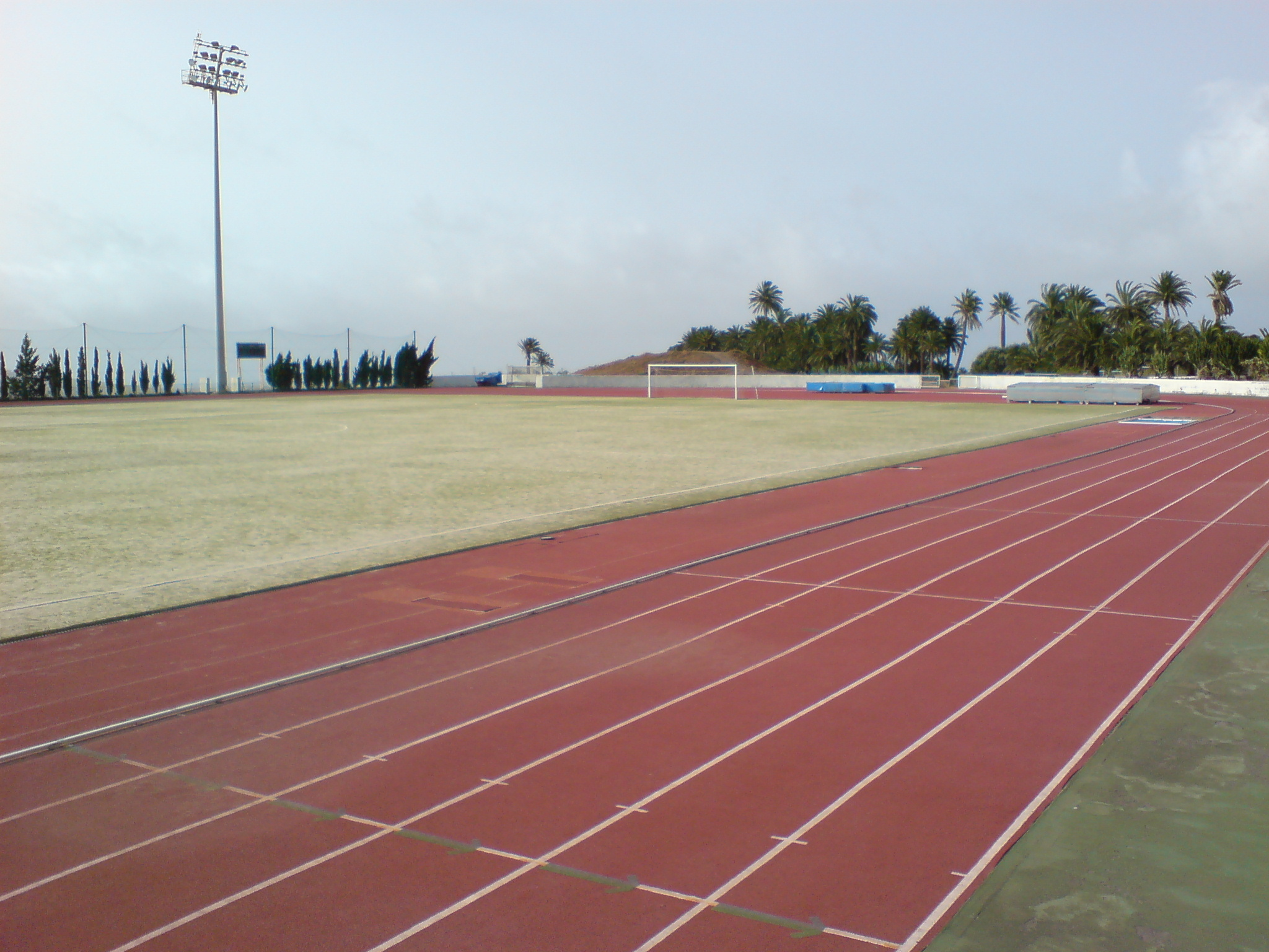 Athletics Stadium, sport facilities of the Campus of Tafira. University of Las Palmas de Gran Canaria ULPGC (Canary Islands, Spain)